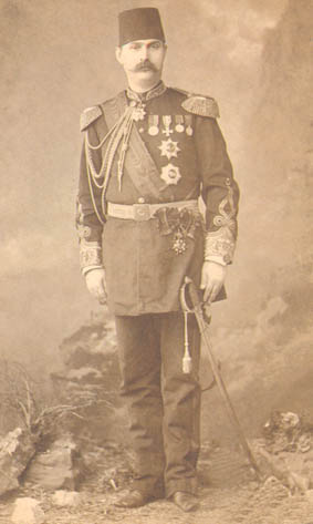 Osman Ferid Pasha